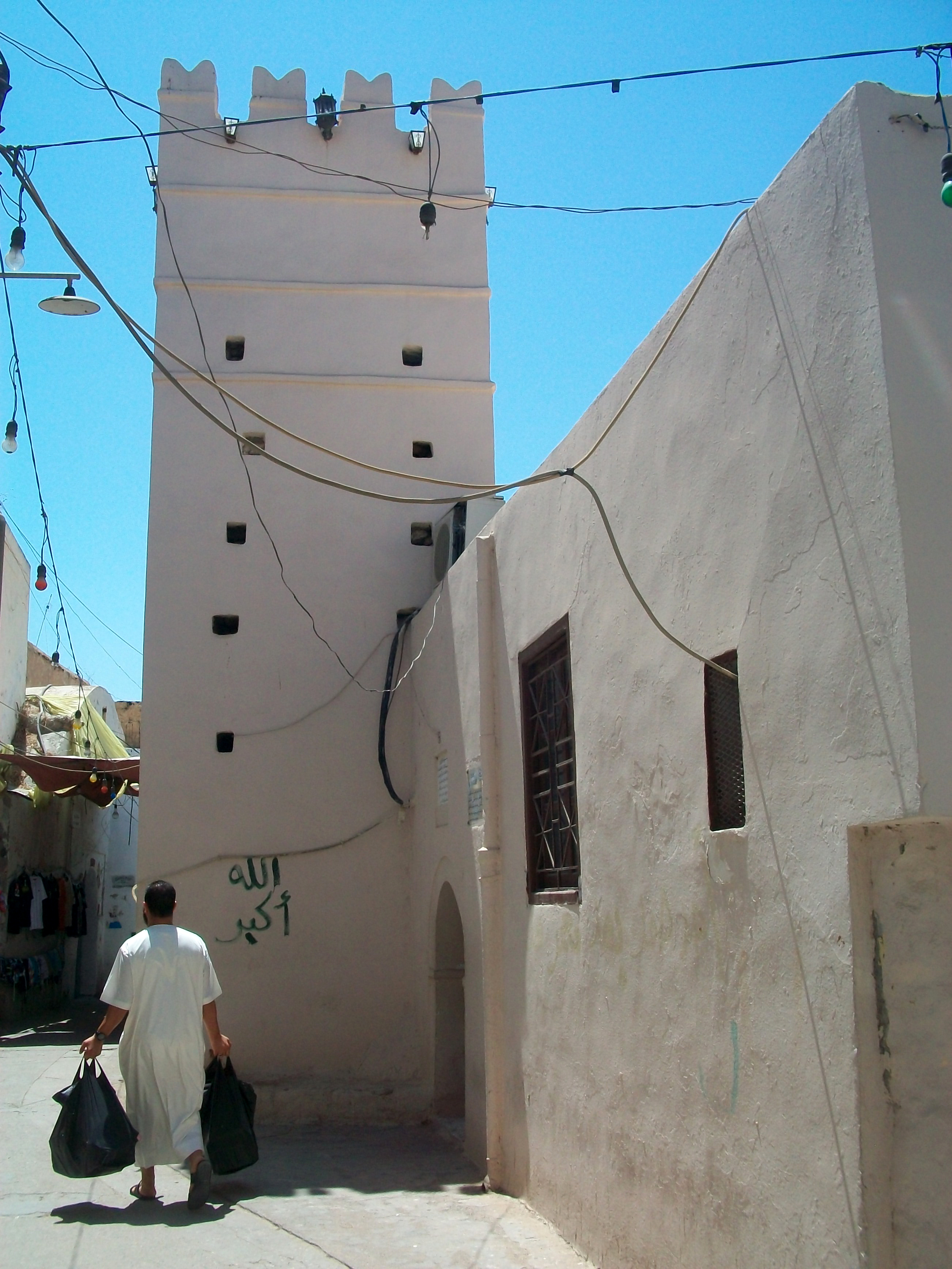 Naga Mosque (or Naqah "meaning female camel" Mosque) is the oldest mosque in the medina of Libya's capital Tripoli.